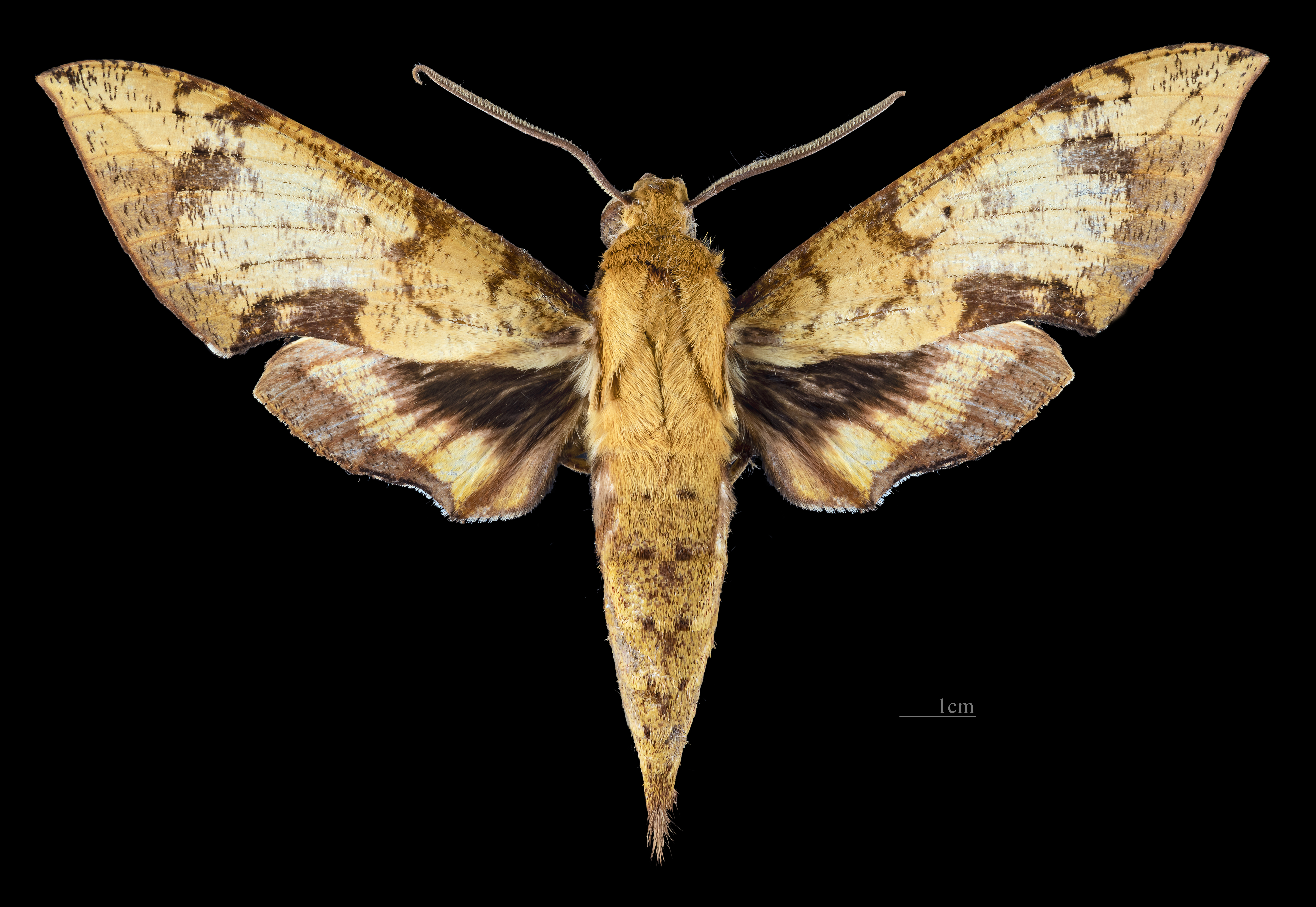 Cechenena transpacifica - Dorsal side Collection of the Mathematician Laurent Schwartz